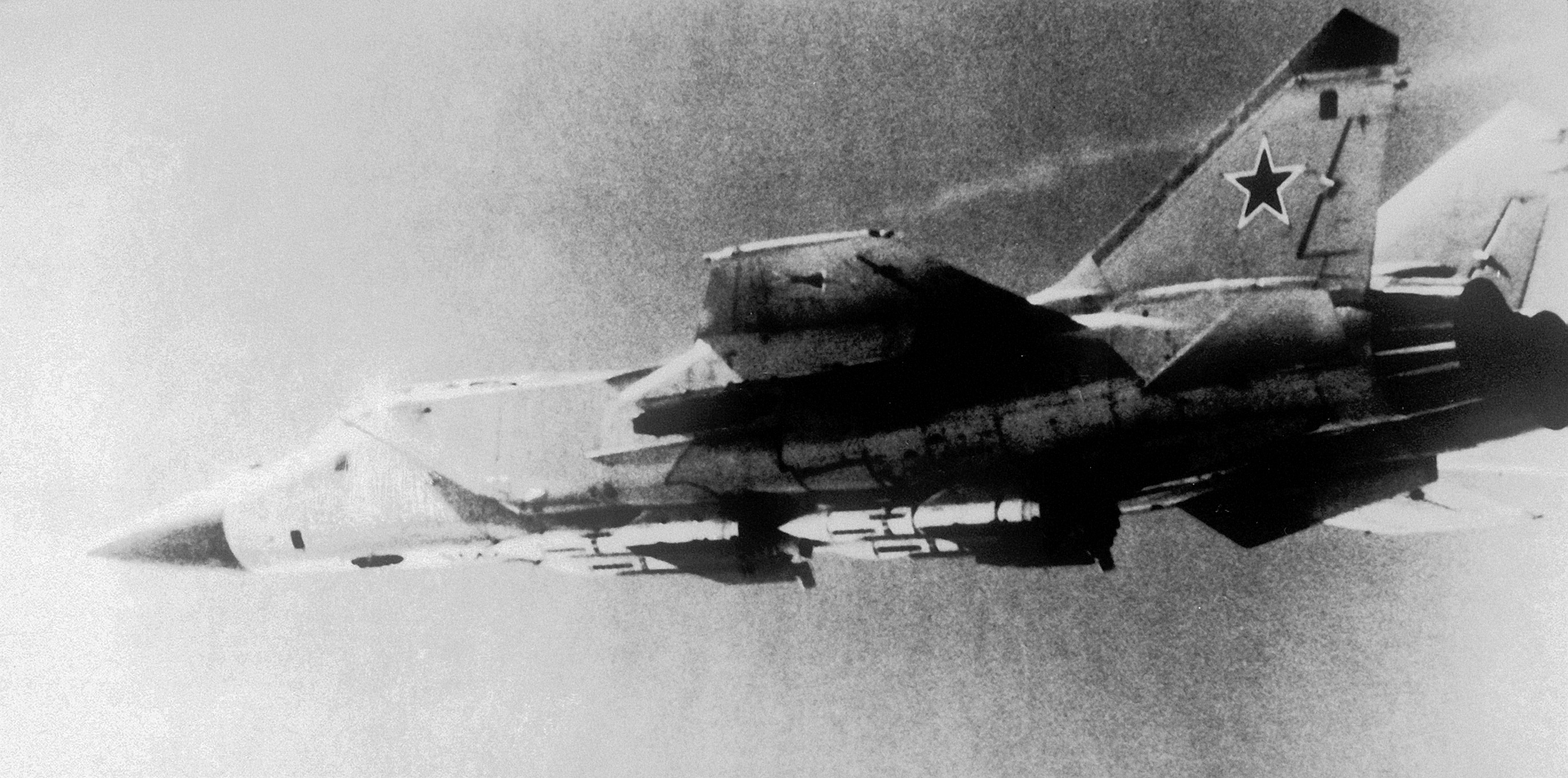 A Soviet MiG-31 Foxhound aircraft armed with AA-9 missiles in flight. Date Shot: 25 Mar 1986